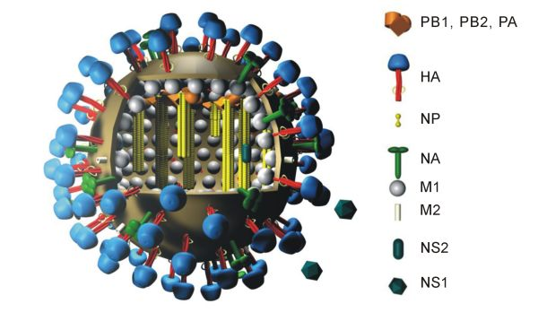 Bildbeschreibung: 3D Modell Influenzavirus Structure of swine influenza virus showing different type of antigens present on and inside the capsid